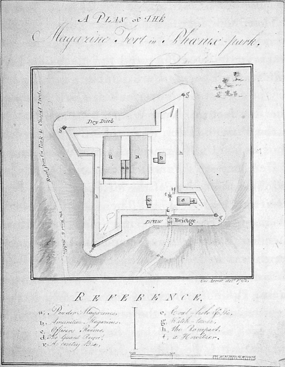 Plan of the Magazine Fort in Phoenix Park, dated 1793. From National Library of Ireland (NLI ref 16). Text in the plan/illustration describes: A Plan of the Magazine Fort in Phoenix Park Dry Ditch Road from the Park to Chapel Izod Draw Bridge Reference a. Powder Magazines b. Ammunition Magazines c. Officers Rooms d. The Guard Room r. A Sentry Box e. Coal hole (?) g. Watch-tower h. The Ramparts t. a Howitzer